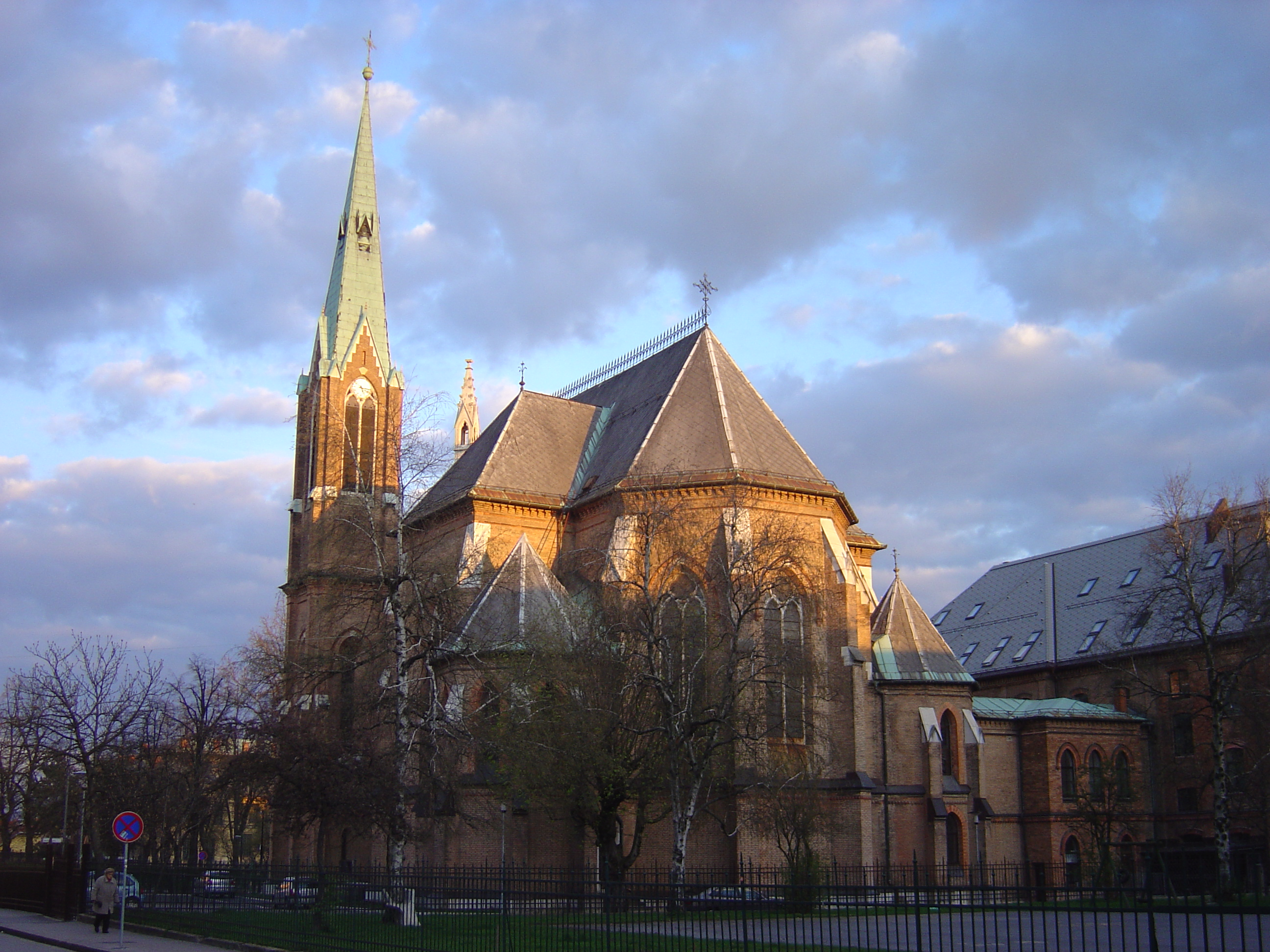 Ljubljana, Slovenia. Holy Heart of Jesus Church.